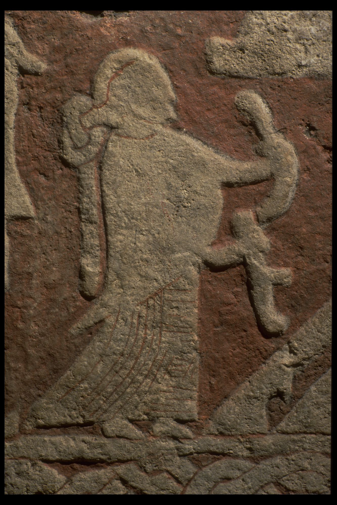 Vikinig age valkyrie